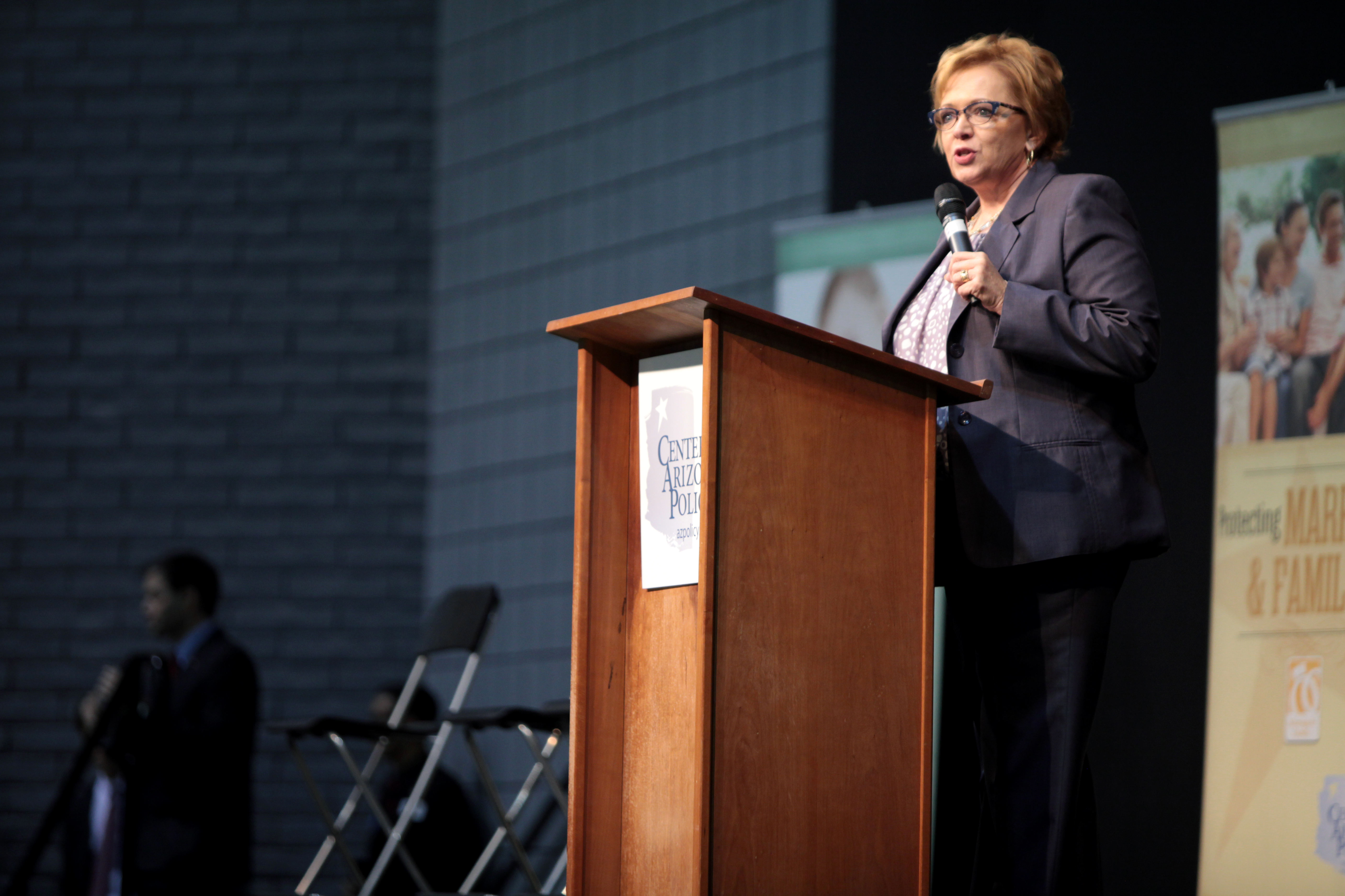 Cathi Herrod speaking at Arizona Christian University in Phoenix, Arizona.